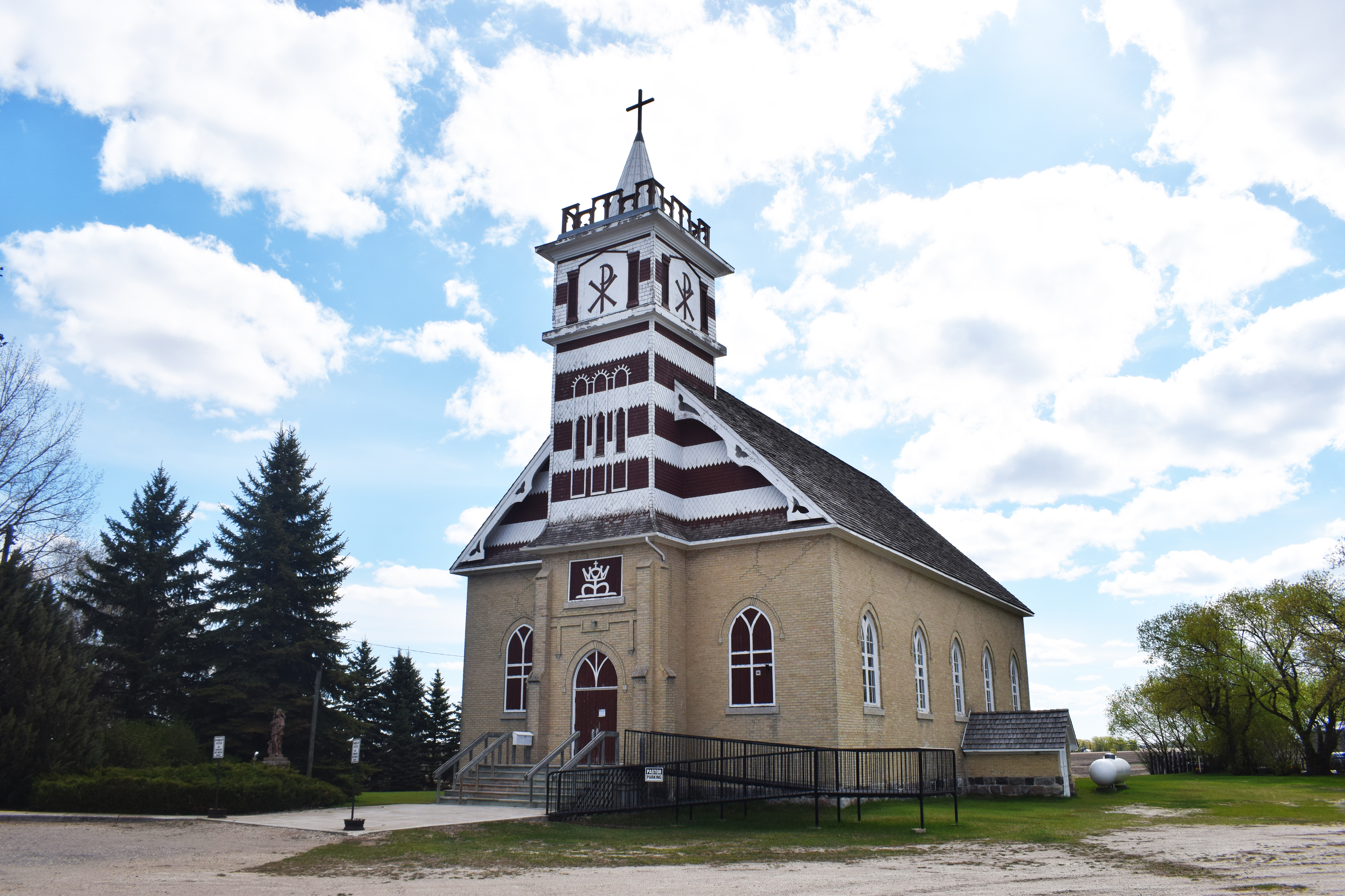 Our Lady of Assumption Roman Catholic Church in Mariapolis, Manitoba, built in 1908.